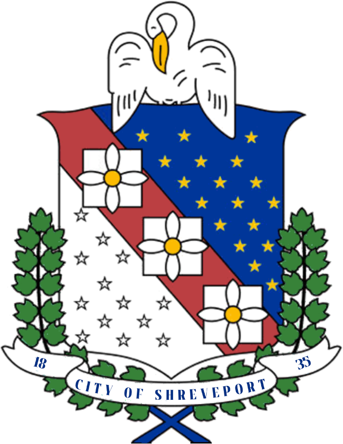 The coat of arms of Shreveport from the flag of Shreveport.